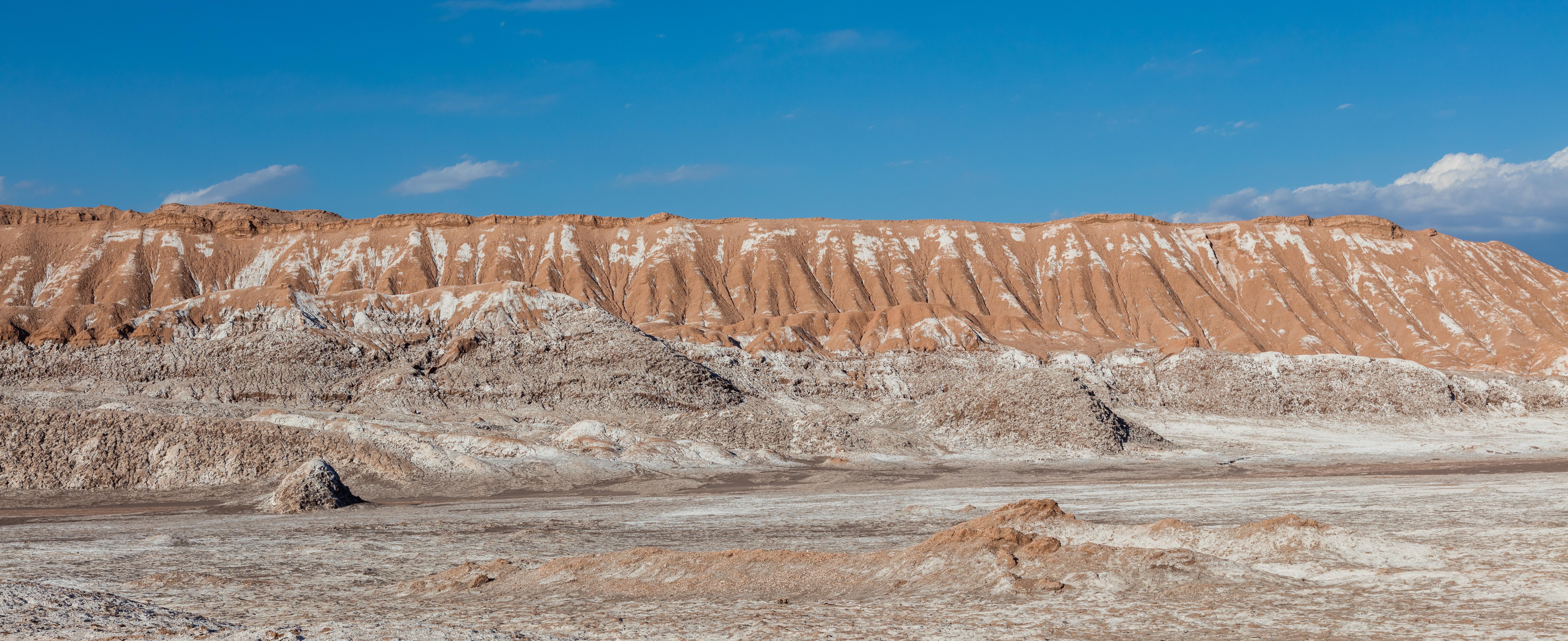 Valle de la Luna, San Pedro de Atacama, Chile